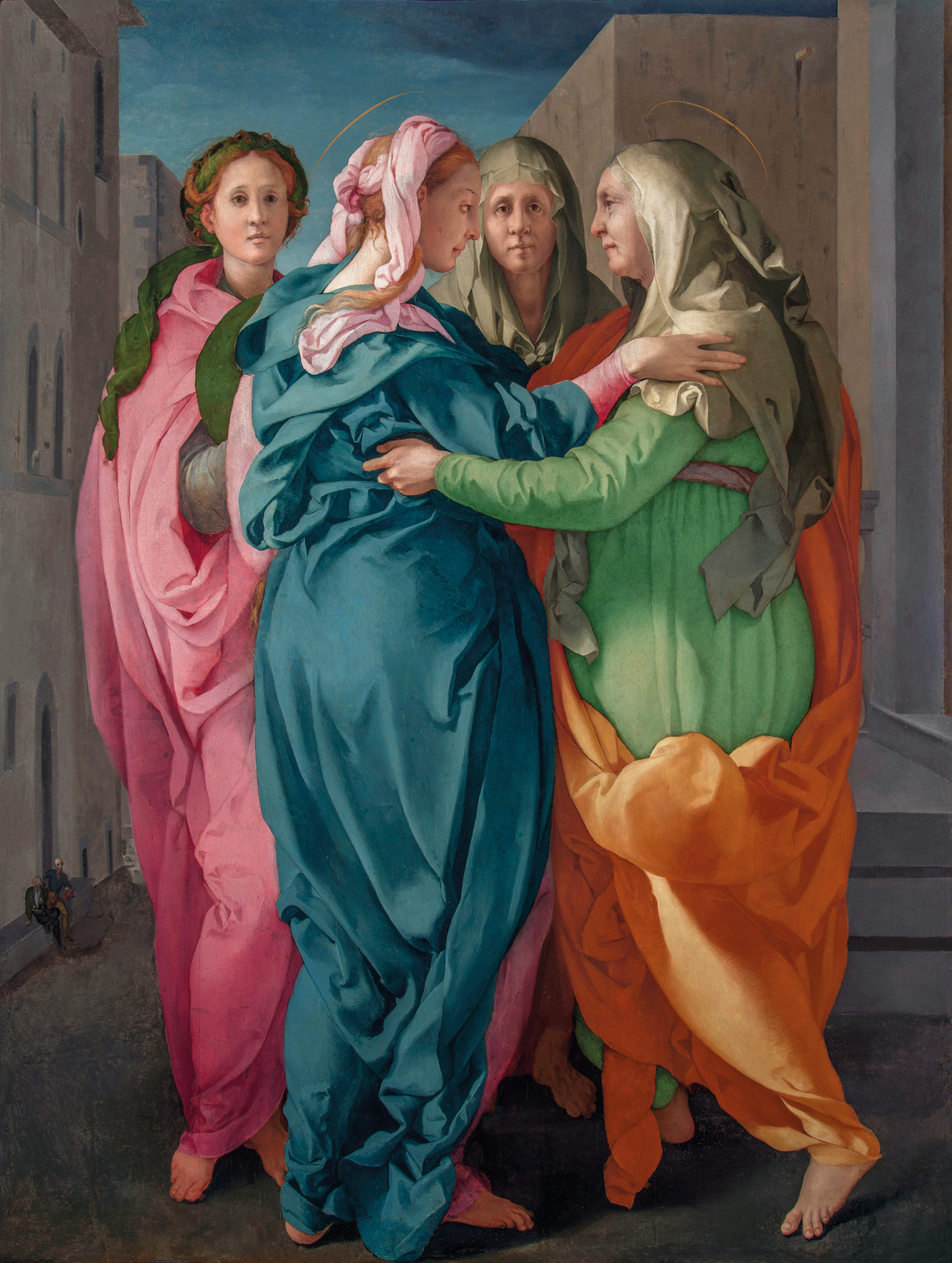 Post-restoration photograph of the Visitation by Pontormo, located in the church of San Michele Arcangelo in Carmignano, Tuscany, Italy.